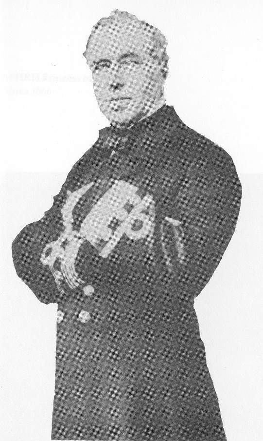 Admiral Sir Sydney Dacres - from a 19th century photo labeled Rear-Admiral Sydney Dacres CB First Sea Lord 1868-72